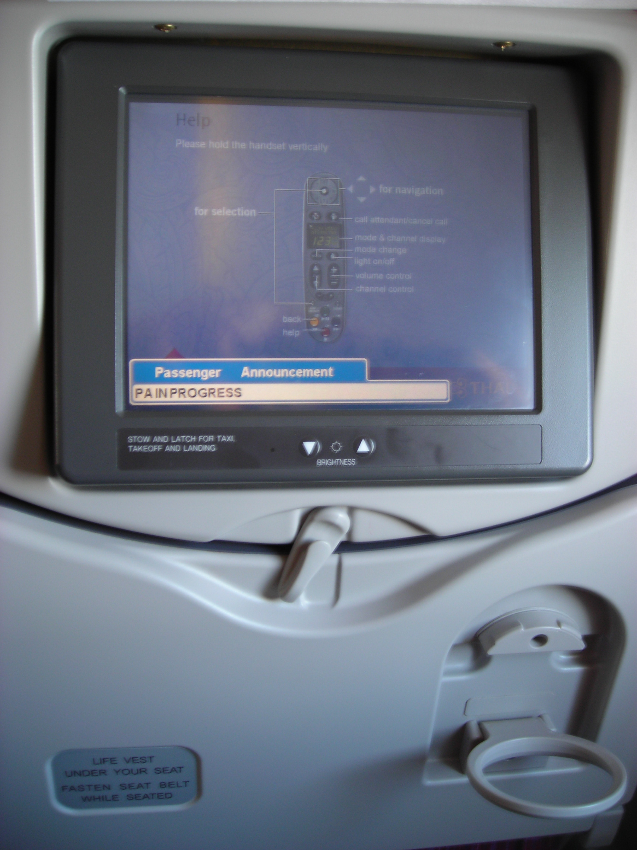 (Touch) screen for onboard entertainment for watching, controlling videos and audio programs as a built-in device of a aircraft seat (Thai Airways Airbus A340-600 economy class).